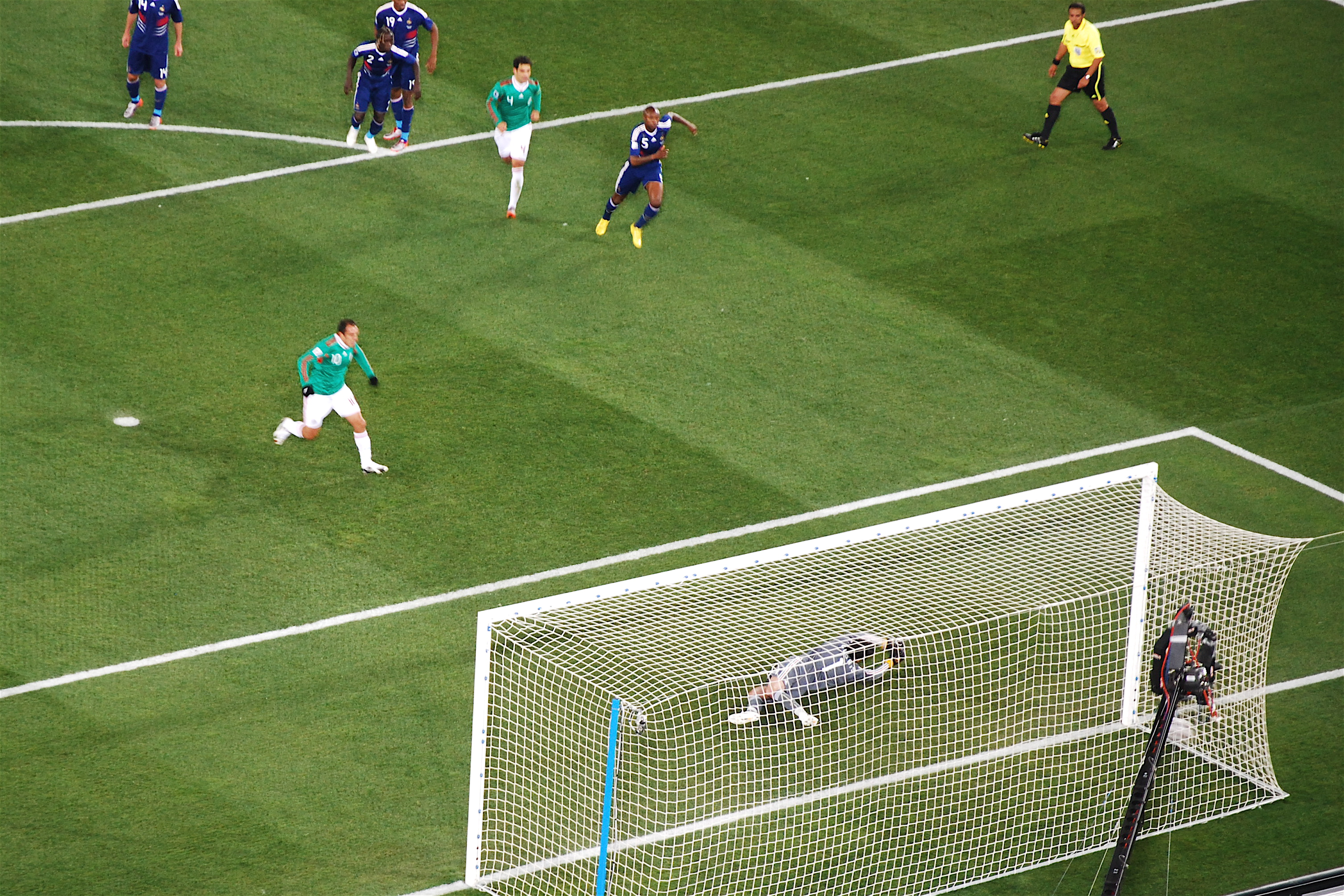 Cuauhtémoc Blanco at penalty mark during the game between France and Mexico at FIFA World Cup 2010, 17 June 2010, Peter Mokaba Stadium, Polokwane